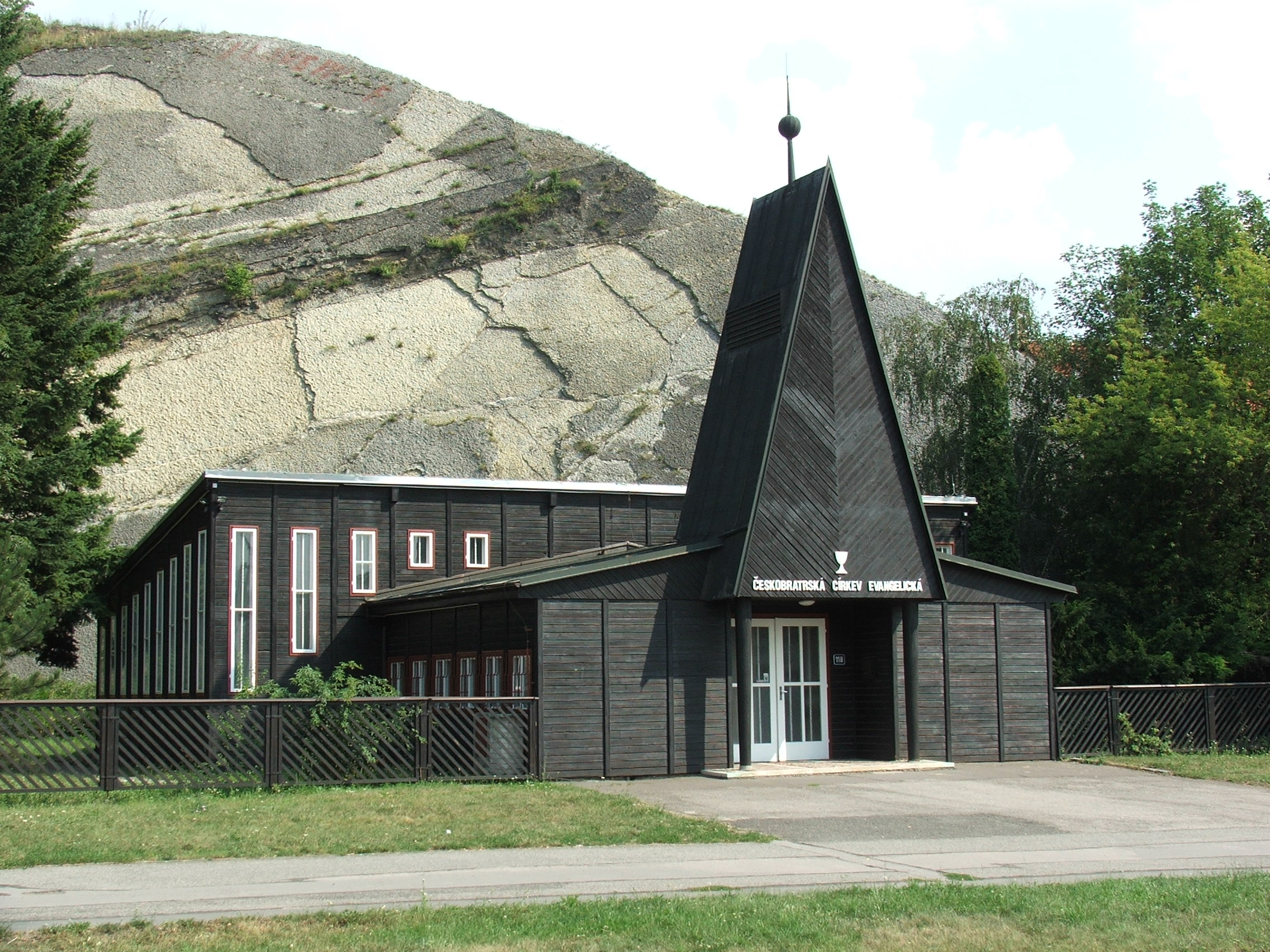 Small wooden church of Evangelical Church of Czech Brethren, Prague - Braník, Czechia.